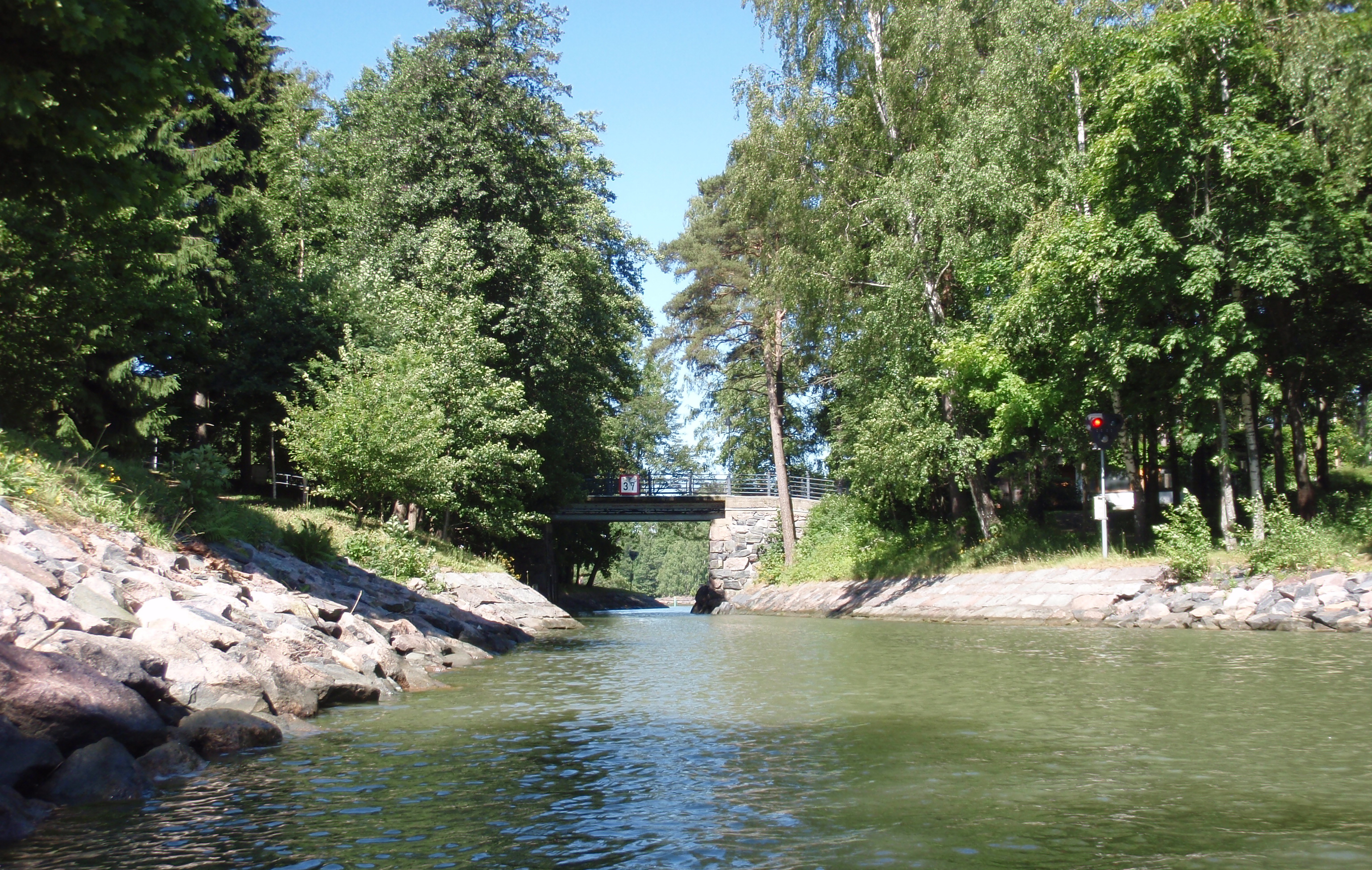 Laajasalo canal, Helsinki